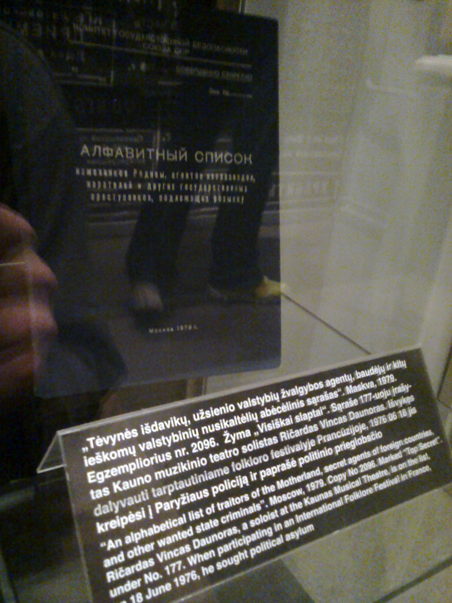 KGB traitors list seen in Museum of Genocide Victims in Vilnius, Lithuania